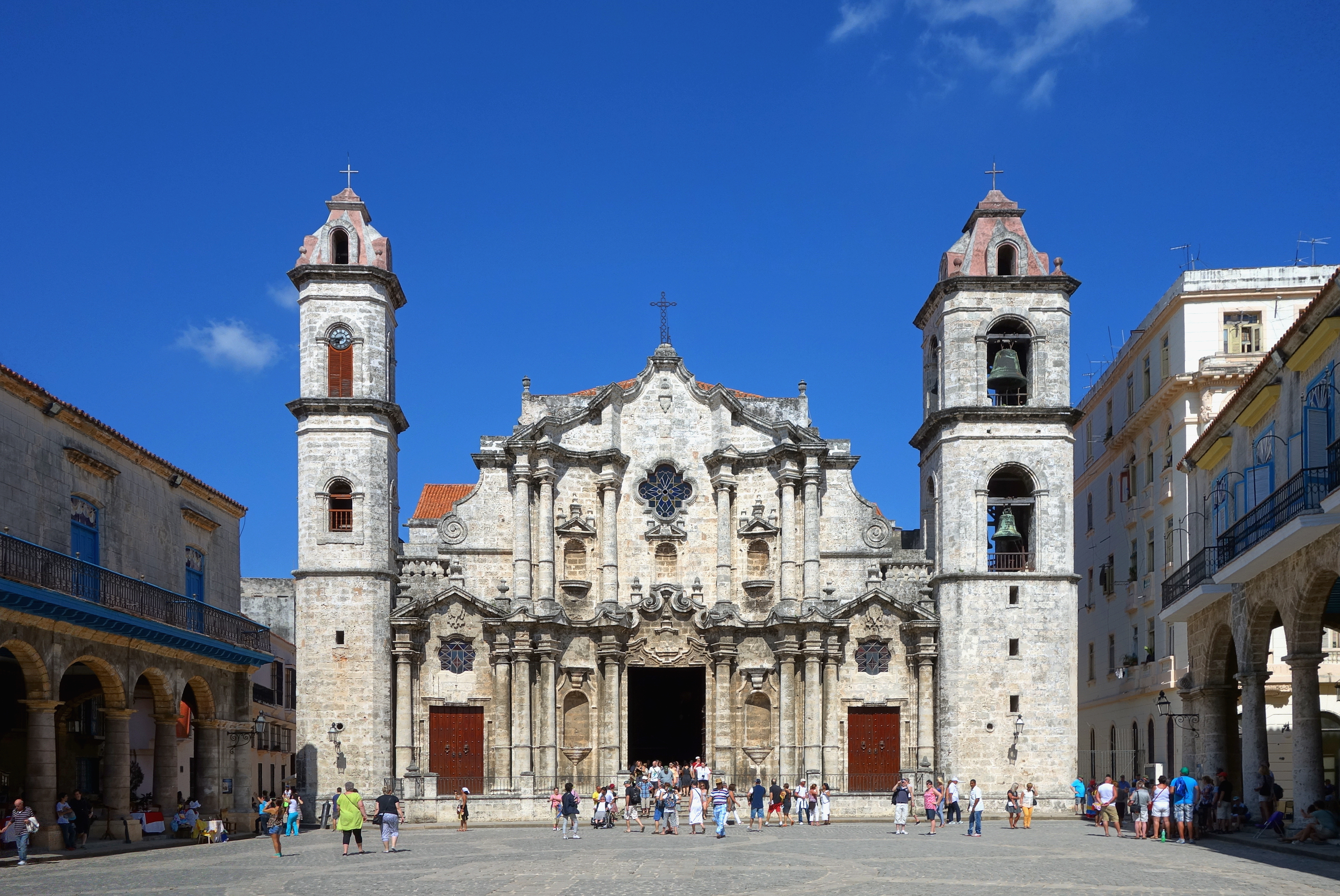 Facade of Catedral de la Virgen María de la Concepción Inmaculada of Havana, Cuba.